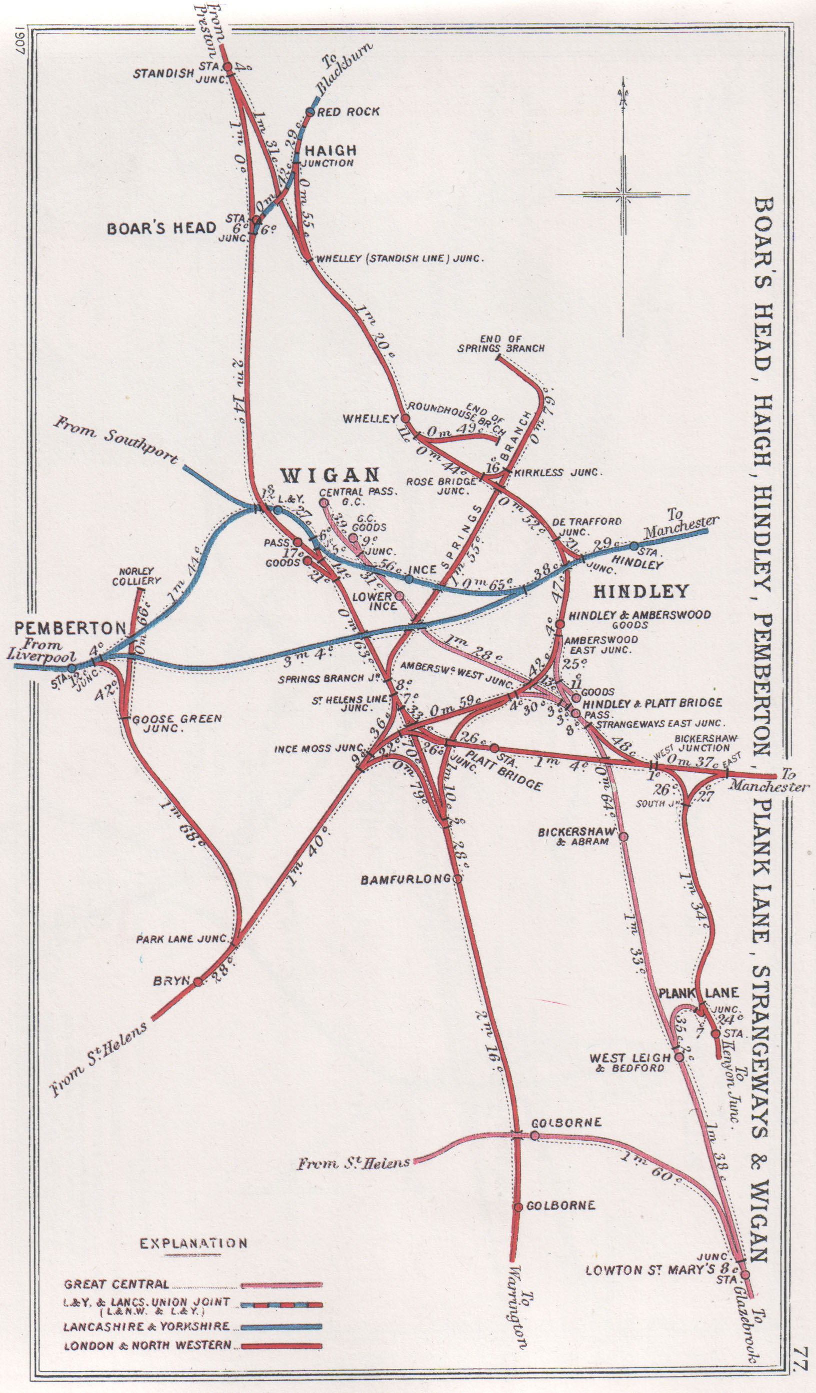 Railway Junctions in Boar's Head, Haigh, Hindley, Pemberton, Plank Lane, Strangeways & Wigan pre grouping